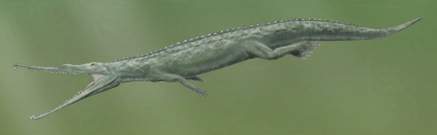 Crop of file in filename